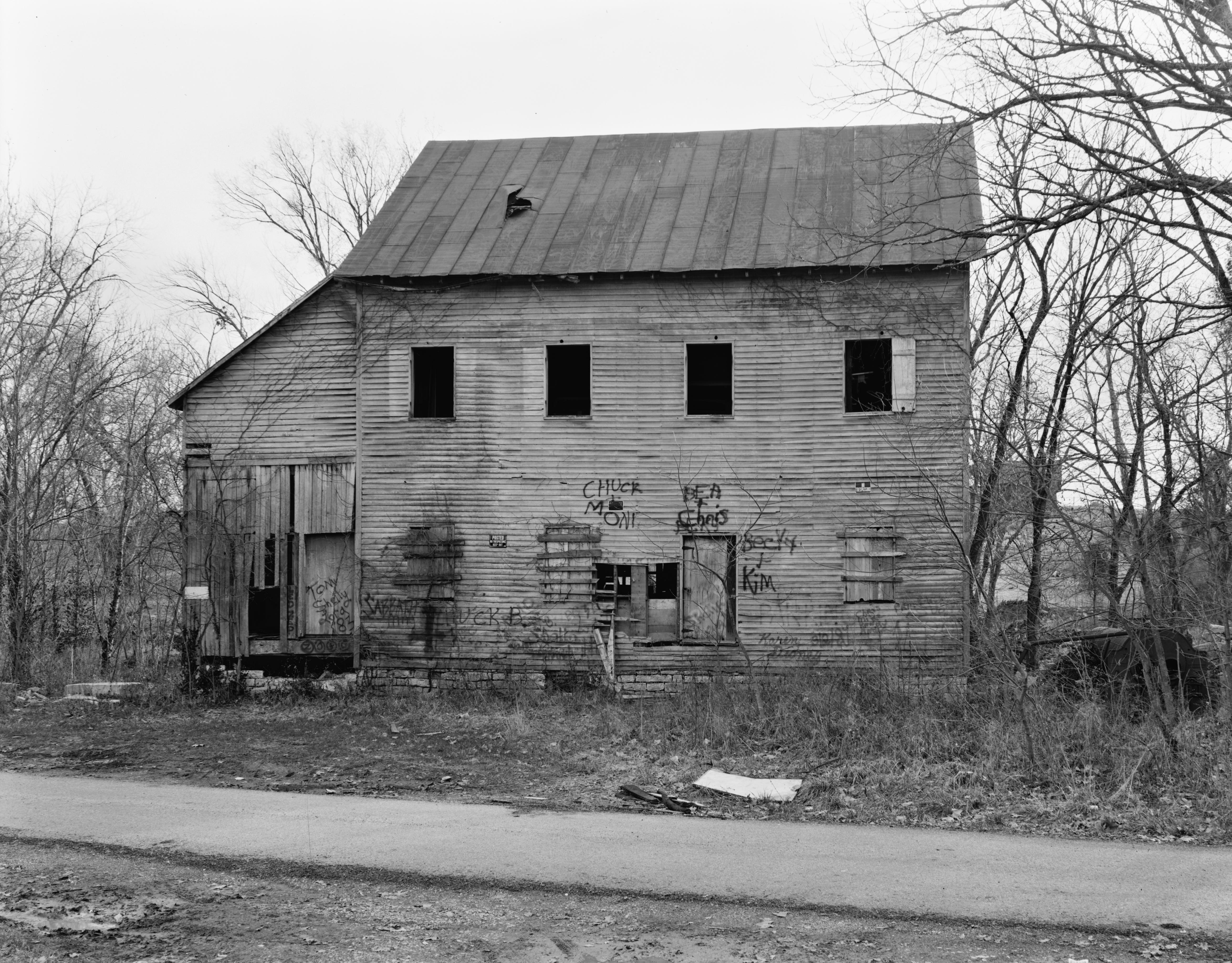 Side of Guyn's Mill, located at the intersection of Mundy's Landing Rd. and Pauls Mill Rd. near Troy in Woodford County, Kentucky, United States. The mill is part of the Guyn's Mill Historic District, a historic district that is listed on the National Register of Historic Places.